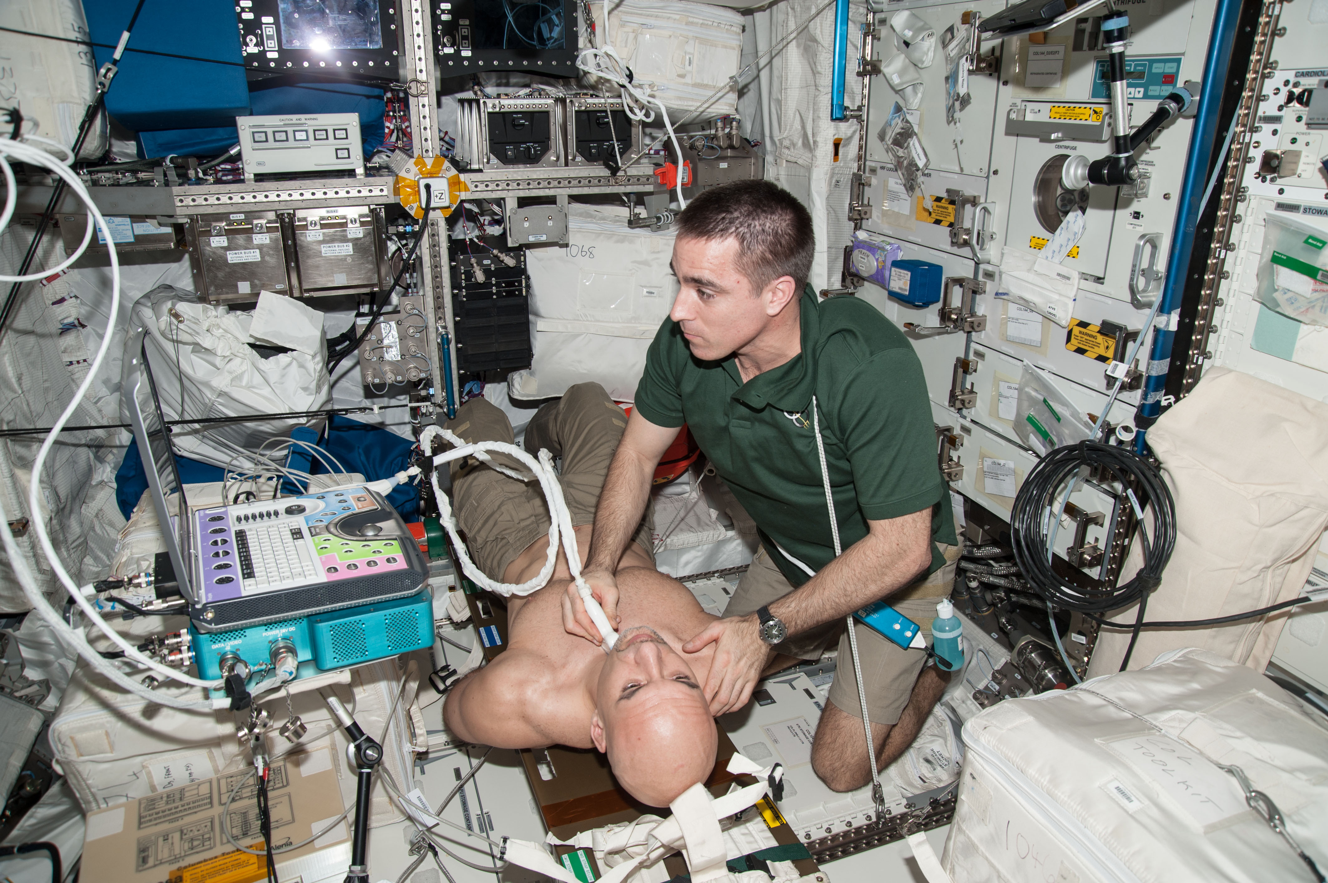 In the International Space Station's Columbus laboratory, NASA astronaut Chris Cassidy, Expedition 36 flight engineer, performs an ultrasound on European Space Agency astronaut Luca Parmitano, flight engineer, for the Spinal Ultrasound investigation. Medical researchers have observed that crew members grow up to three percent taller during their long duration missions aboard the station and return to their normal height when back on Earth. The Spinal Ultrasound investigation seeks to understand the mechanism and impact of this change while advancing medical imaging technology by testing a smaller and more-portable ultrasound device aboard the station.